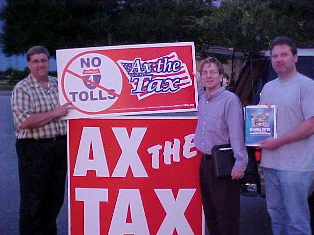 Activists at an Ax the Tax rally against increased taxes.